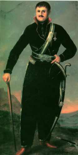 Painting of Cossack Leader Antin Holovaty